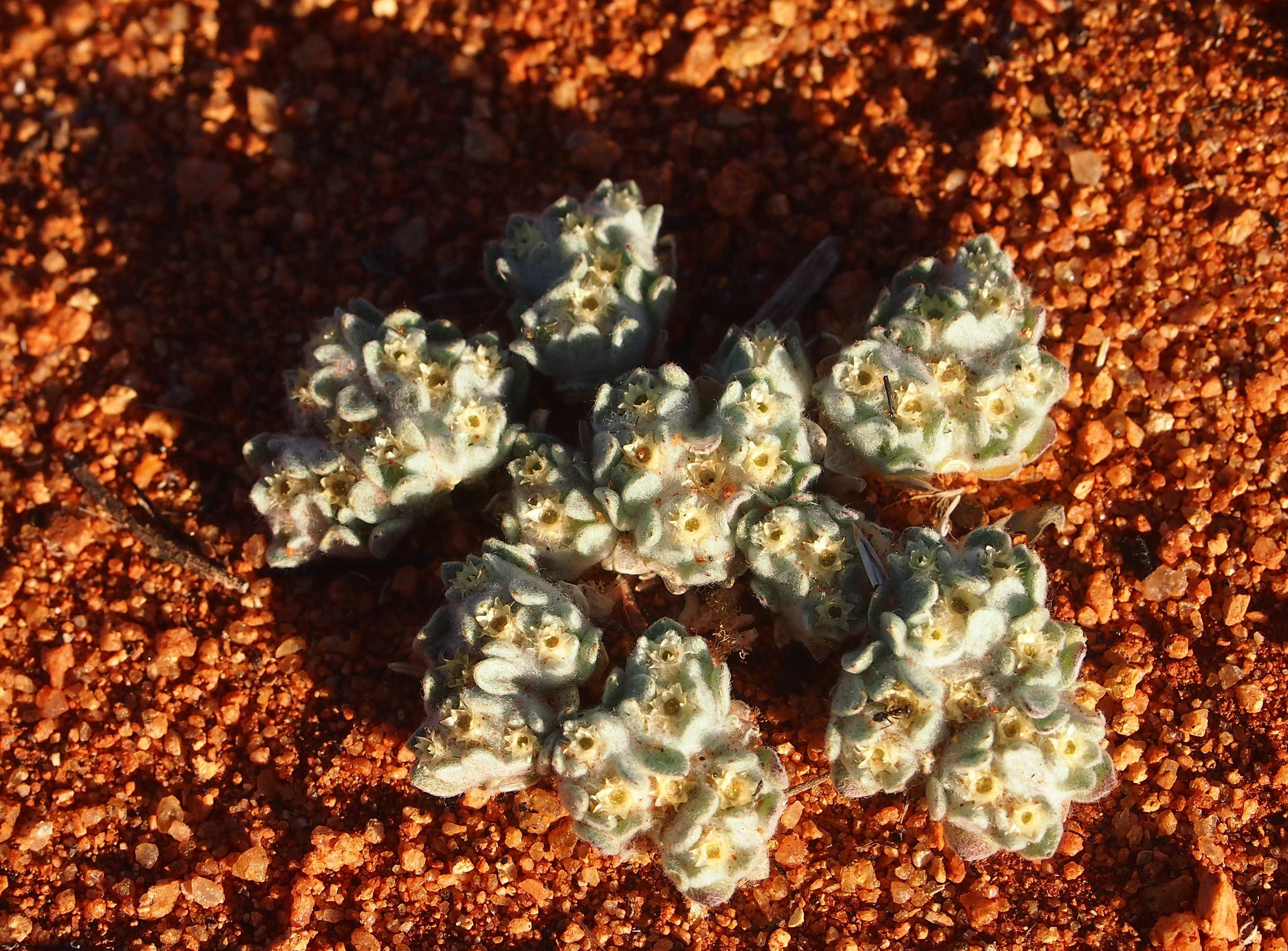 Actinobole uliginosa habit